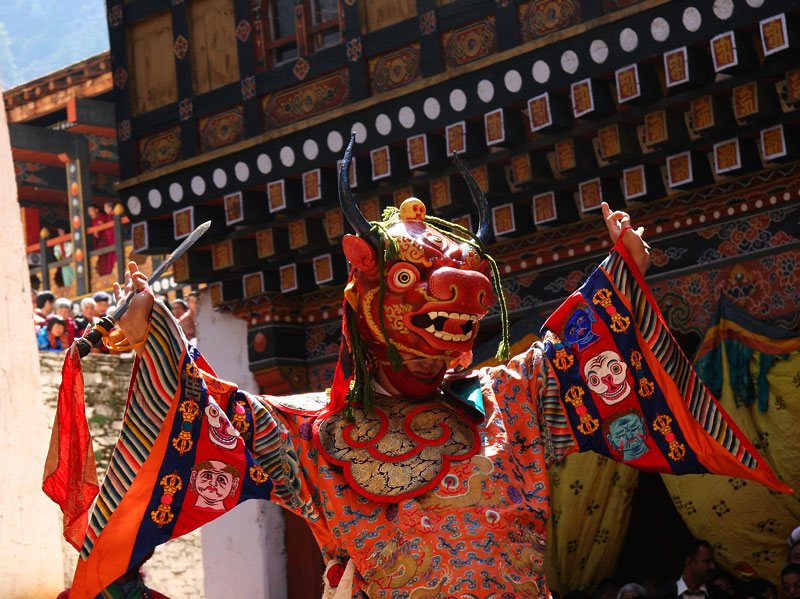 Tsechus are festivals in honour of Guru Rinpoche (Padmasambhava), who brought Buddhism to Tibet and Bhutan. They are held in almost every district, attracting hundreds of Bhutanese people in a spirit of festivity, celebration and deep faith. They consist of mask dances performed by monks as well as lay people. They last during 3 to 5 days. In a swim of colour and noise, the gods and demons of buddhist mythology come to life. These masked dance festivals are also a unique opportunity for meeting people and socializing. Here at Paro tsechu the opening dance: the Dance of the Lord of Death. The Bodhisatva Manjusiri represents the body of Wisdom of all the Buddhas. When he takes the appearance of the terrifying Lord of Death, he becomes the Lord (Je) of the Dead (Shin) and thus is called Shinje. being the Lord of death, he is also the ruler of the Three Worlds, which he protects. His wrathful Buffalo face guards the four continents and blesses them before the arrival on earth of the gods of Wisdom.